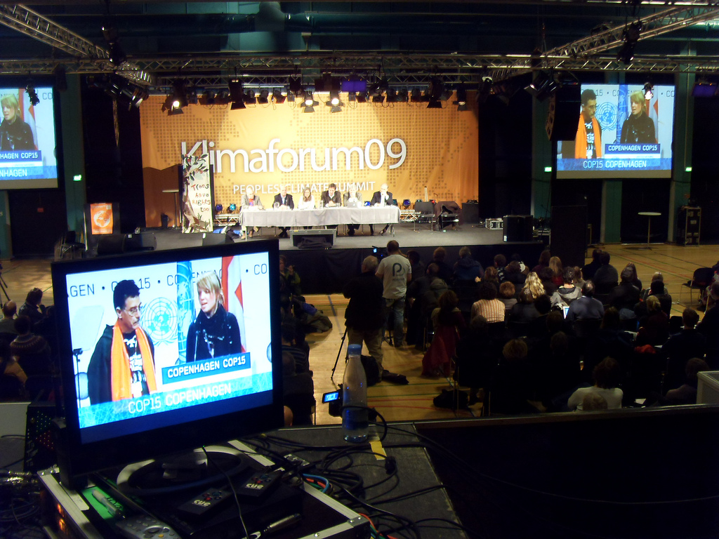 Klimaforum09 - Live broadcast at Klimaforum09 of the hand over of the 'People's Declaration. System change - not climate change'to the 15th Conference of the Parties of the UNFCCC (COP15) at December 18th 2009.